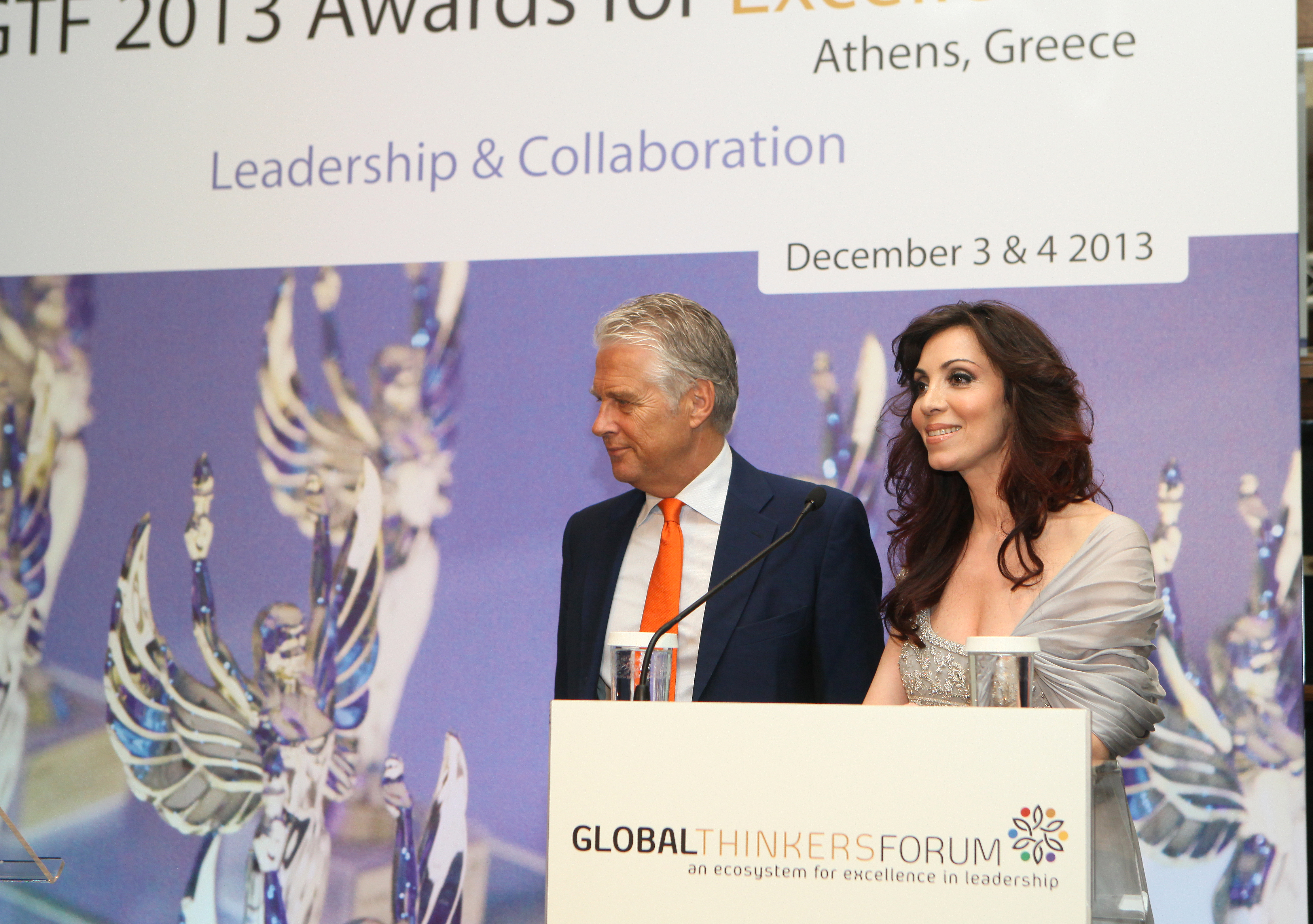 Athens, Greece - December 2013: Elizabeth Filippouli and Stephen Cole presenting the Global Thinkers Forum Awards for Excellence 2013